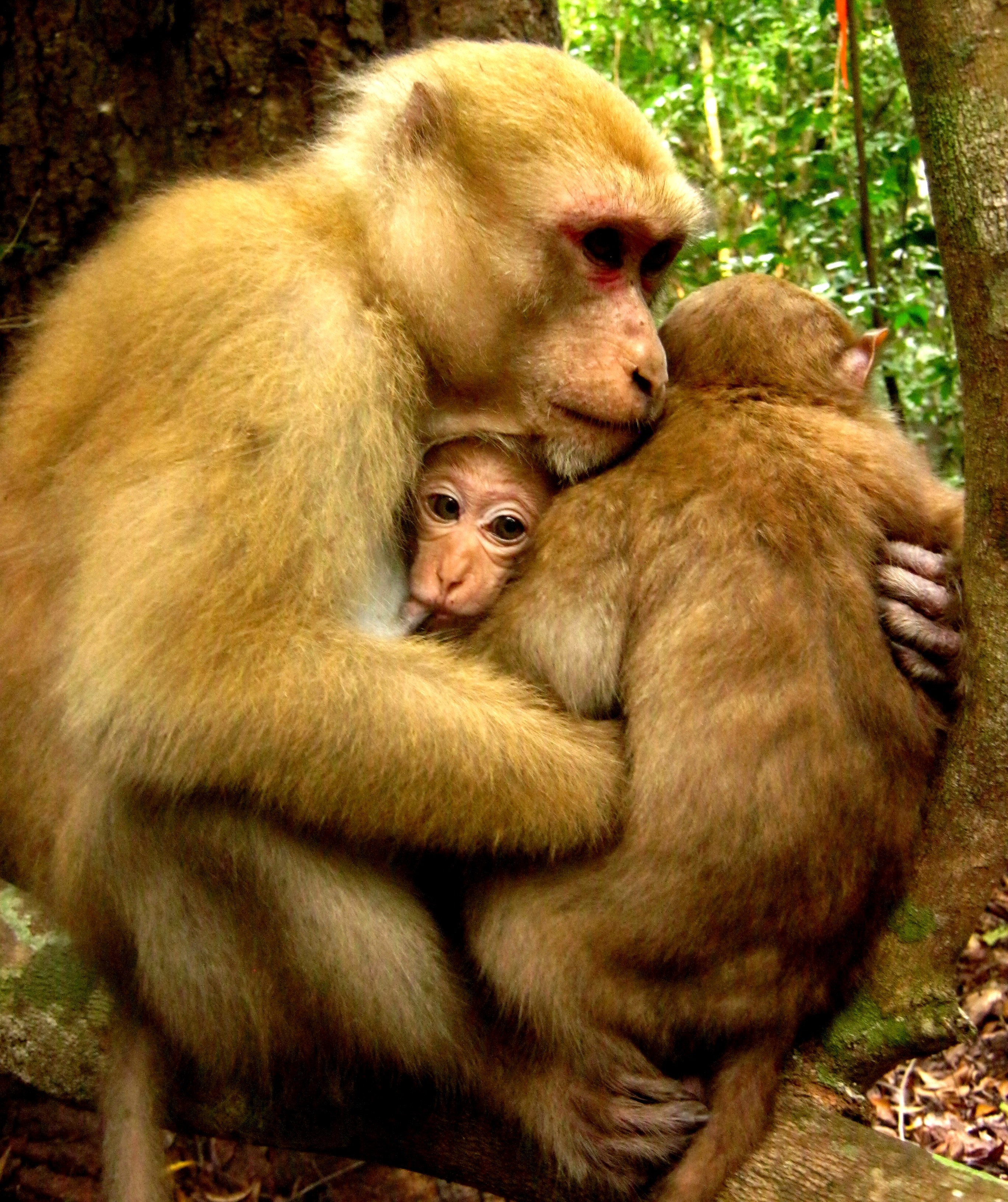 a family of Assamese macaque